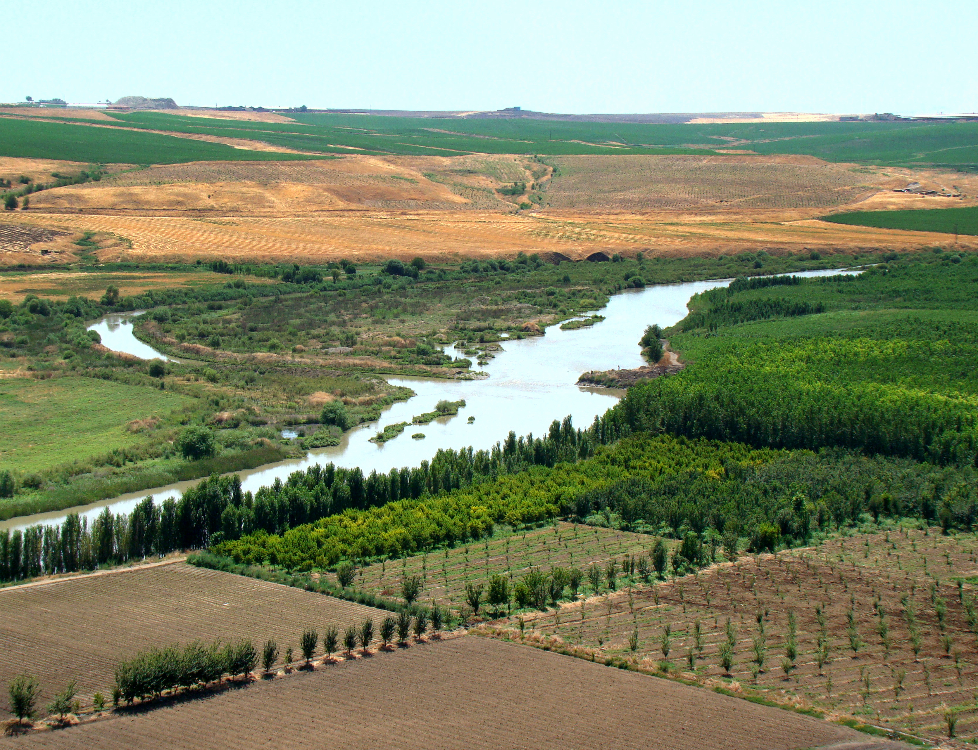 Roughly 100 kilometres from its source, Tigris is already an important river for agriculture just outside Diyarbakır.